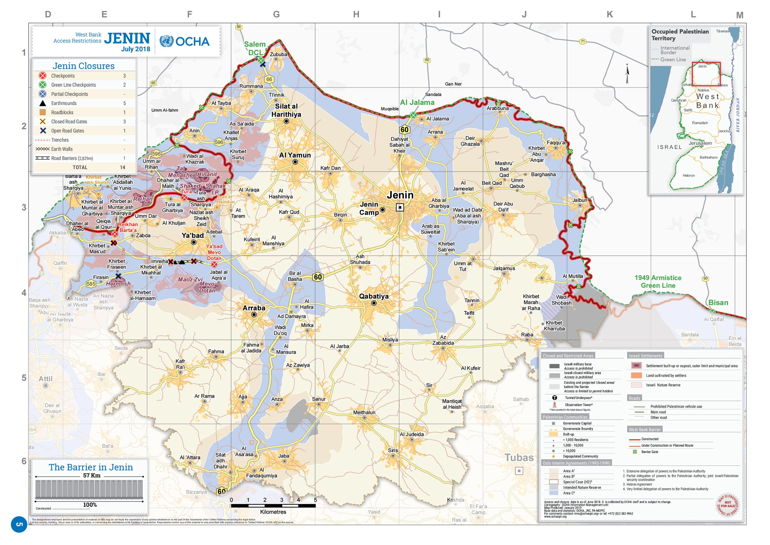 2018 OCHA OpT map